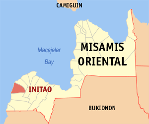 Map of the Misamis Oriental showing the location of Initao